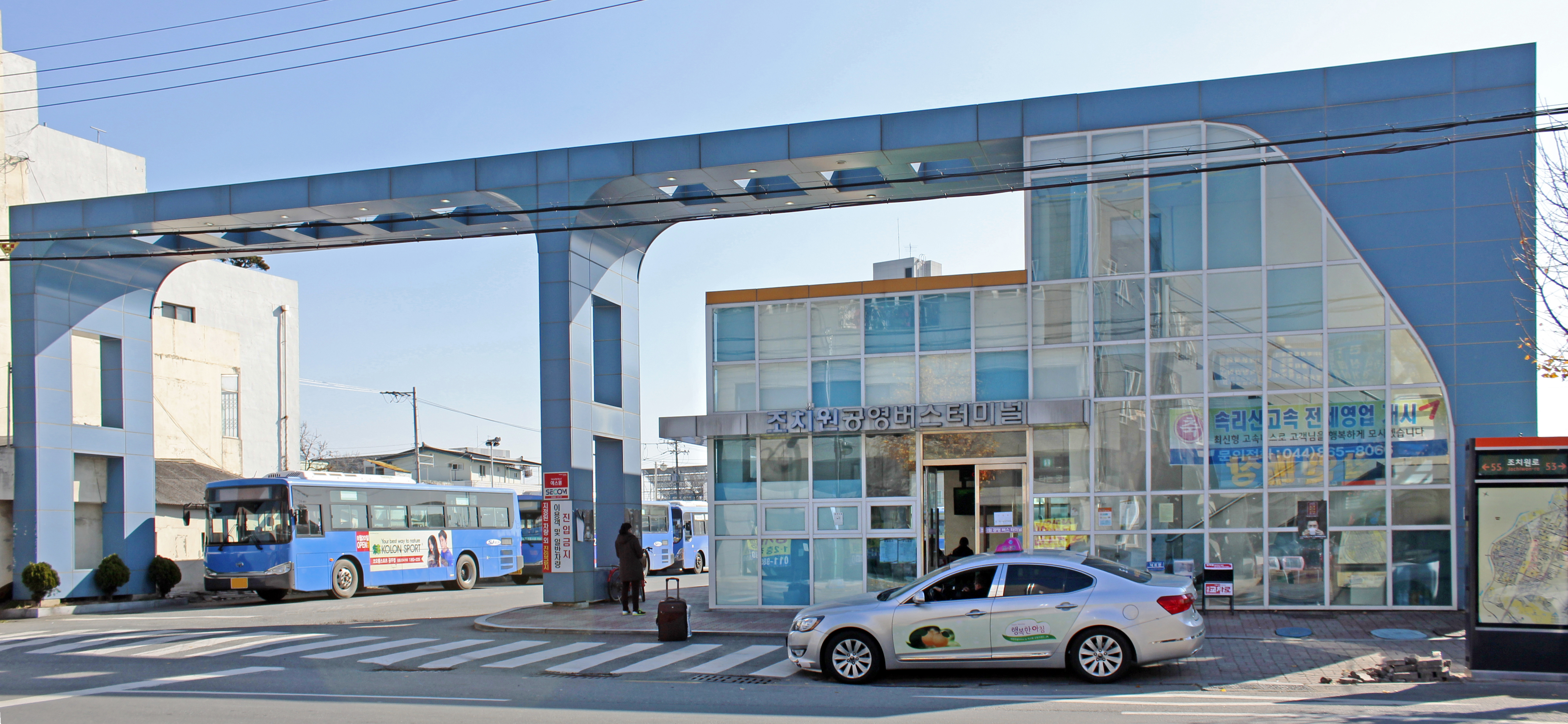 18 Nov 2014